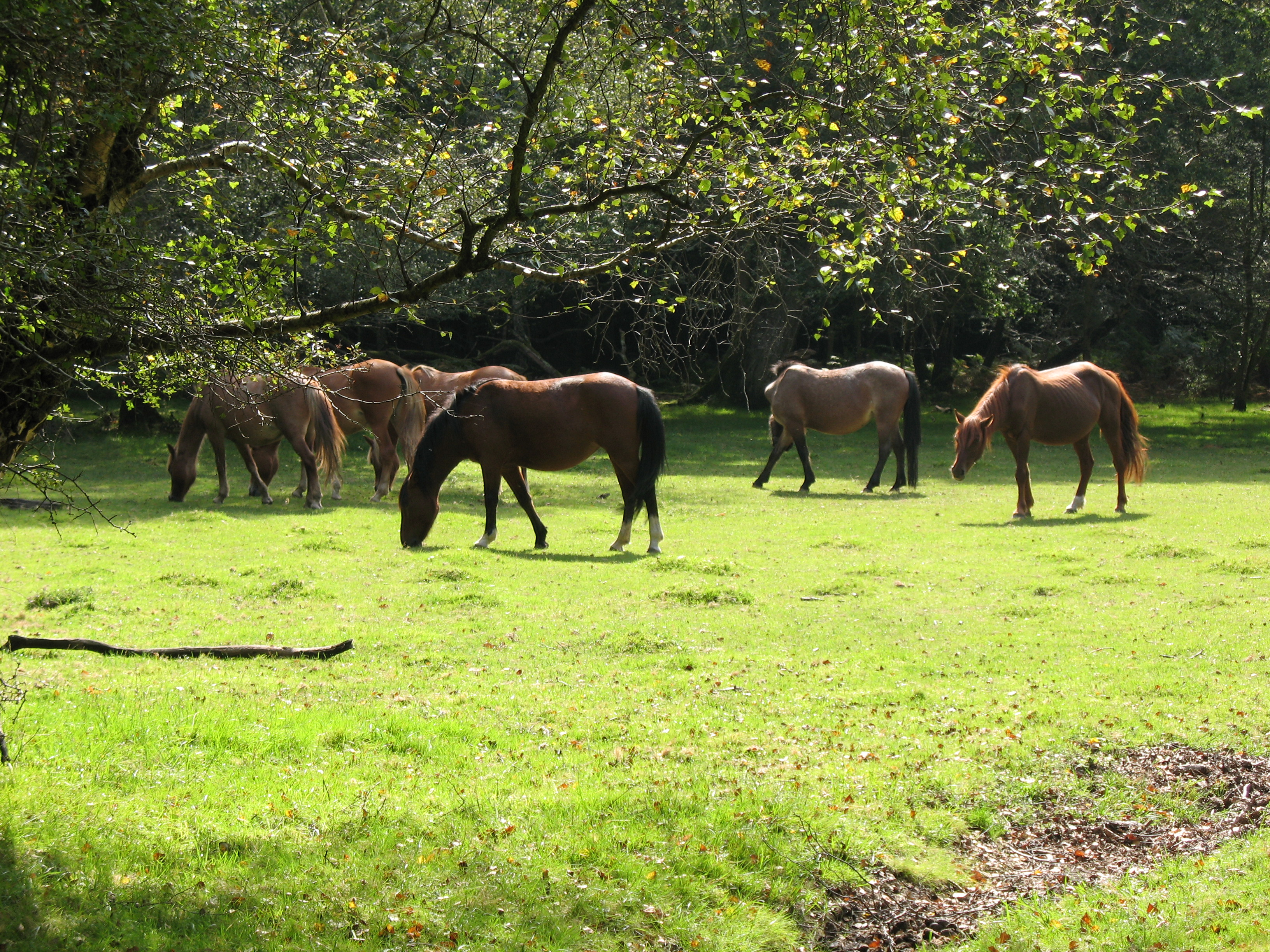 New Forest ponies